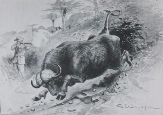 Illustration by Charles Whymper from Frederick Vaughan Kirby’s In haunts of wild game: a hunter-naturalist's wanderings from Kahlamba to Libombo, London: Blackwood & Sons, 1896.